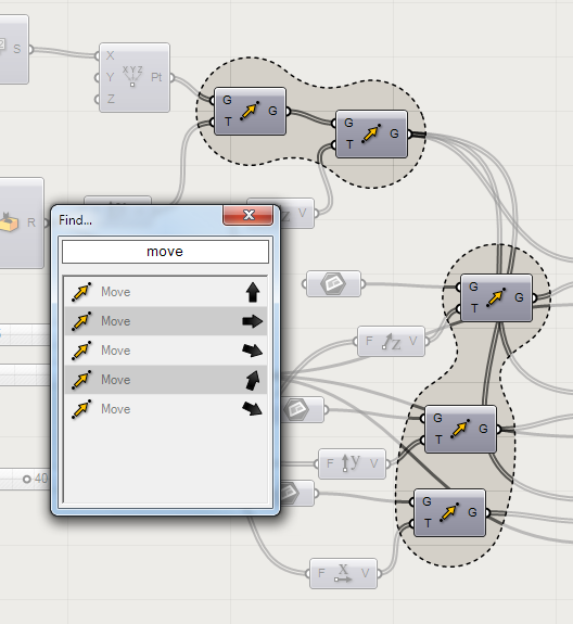 Screen shot of the Grasshopper Find GUI